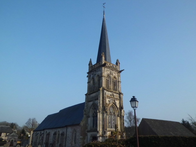 Church Saint-Martin at Cottévrard (Normandy)